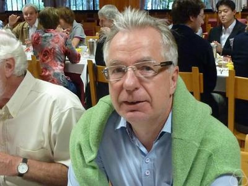 Herwig Hauser, El Escorial 2010 (Conference in Honor of Sabir Gusein-Zade)